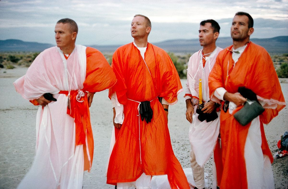 Frank Borman, Neil Armstrong, John Young and Deke Slayton during desert survival training in Nevada.